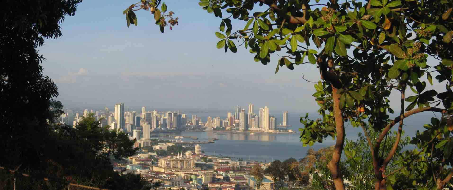 A view of Panamá City from the Cerro Ancón, April 2004.